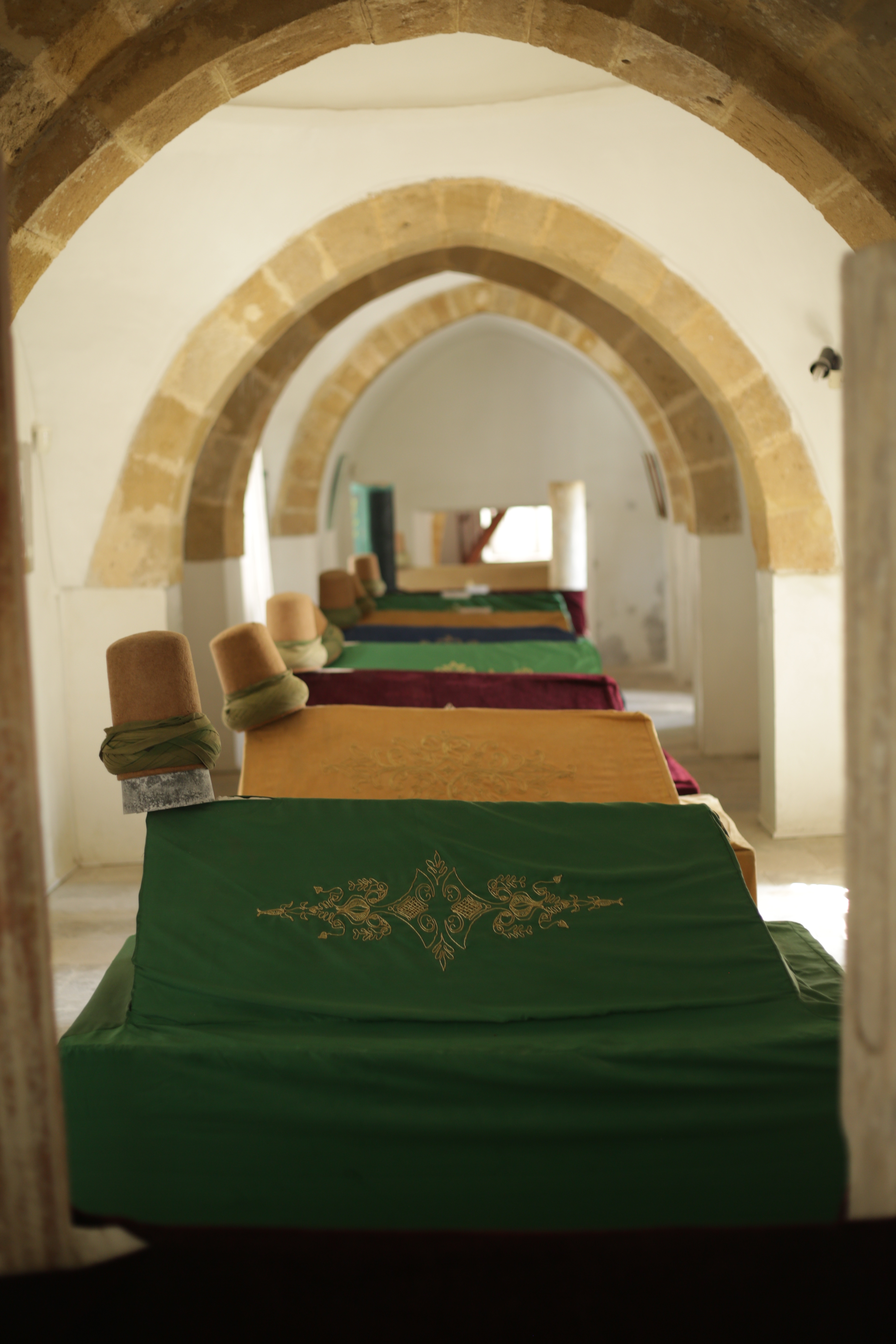 Sufi Sheikhs of the Mawlawi order, founded by Jalal-ud-Din Rumi, rest in the Mevlevihane on the Turkish side of Nicosia, in the unrecognized Turkish Republic of Northern Cyprus.